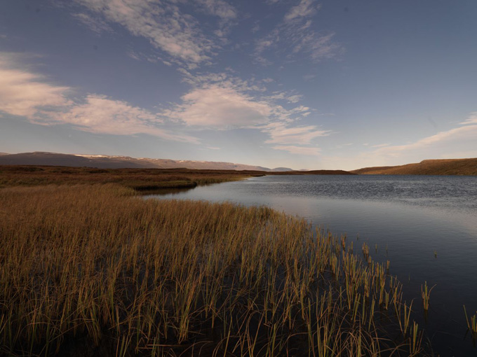 Iceland 2